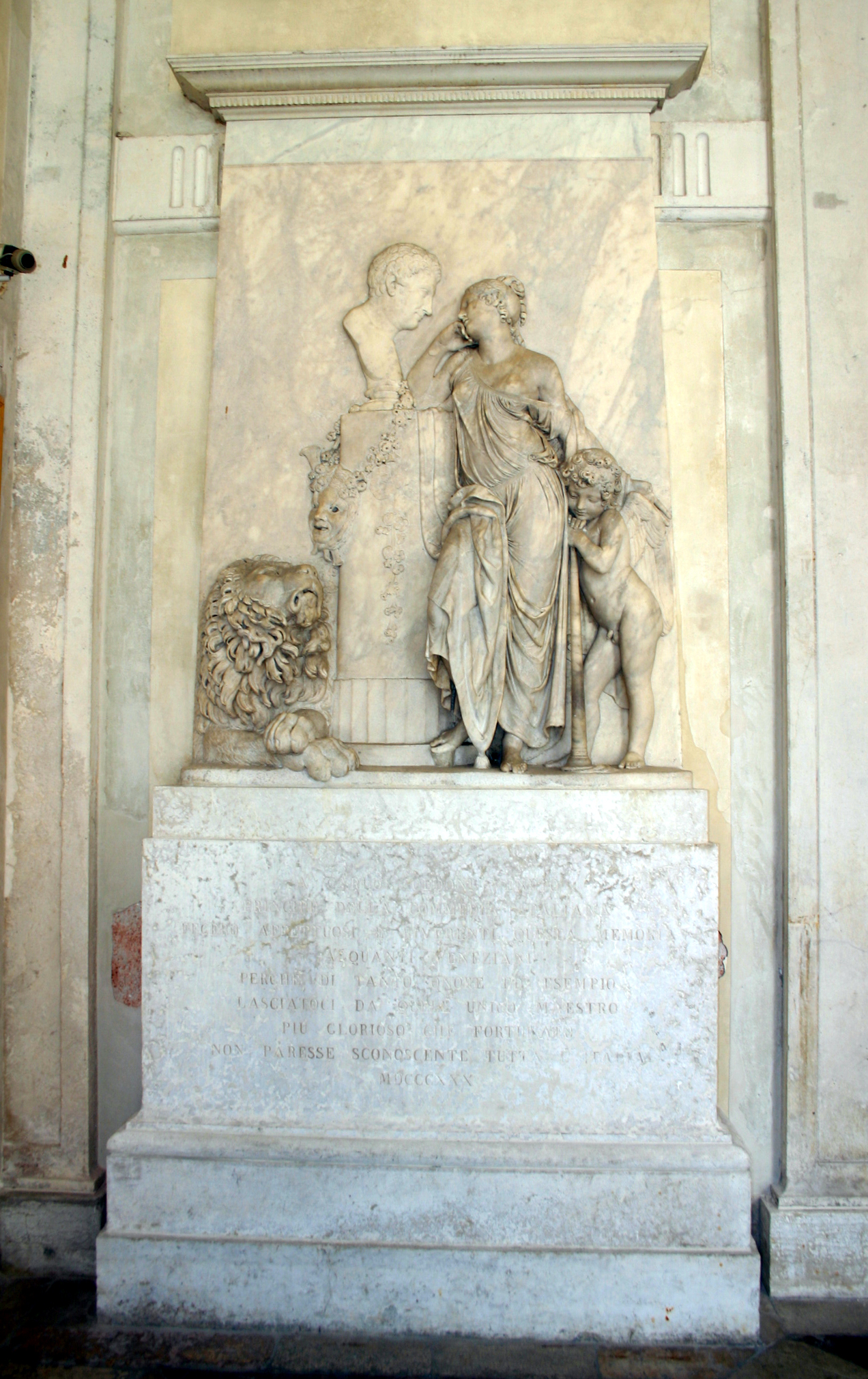 Luigi Zandomeneghi (1778-1850), Monument to playwright Carlo Goldoni (1830), in the pronao of Teatro La Fenice Opera House in Venice. Picture by Giovanni Dall'Orto, August 6, 2007.